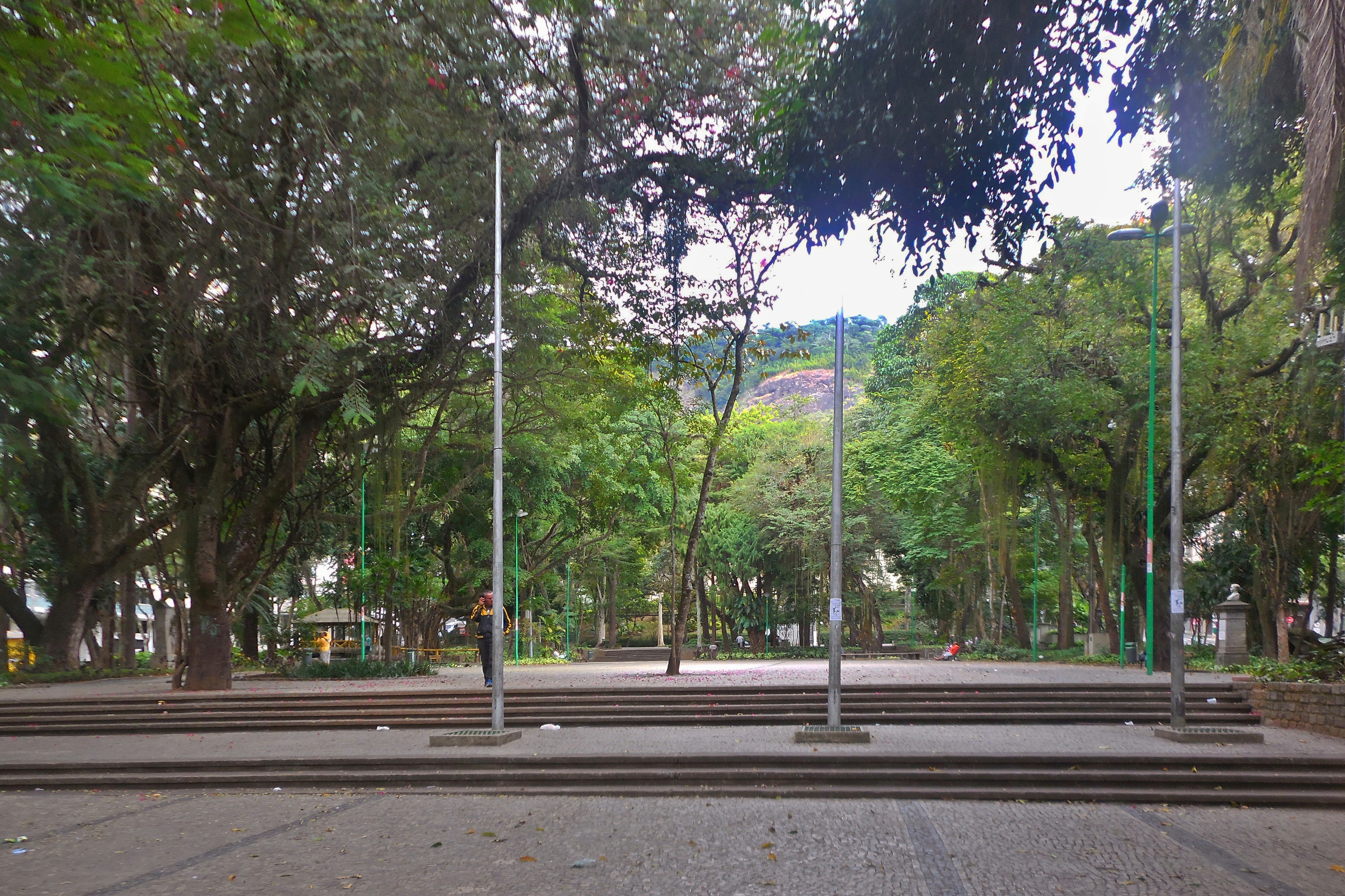 Interior of the Halfeld Park, in Juiz de Fora, Minas Gerais, Brazil.